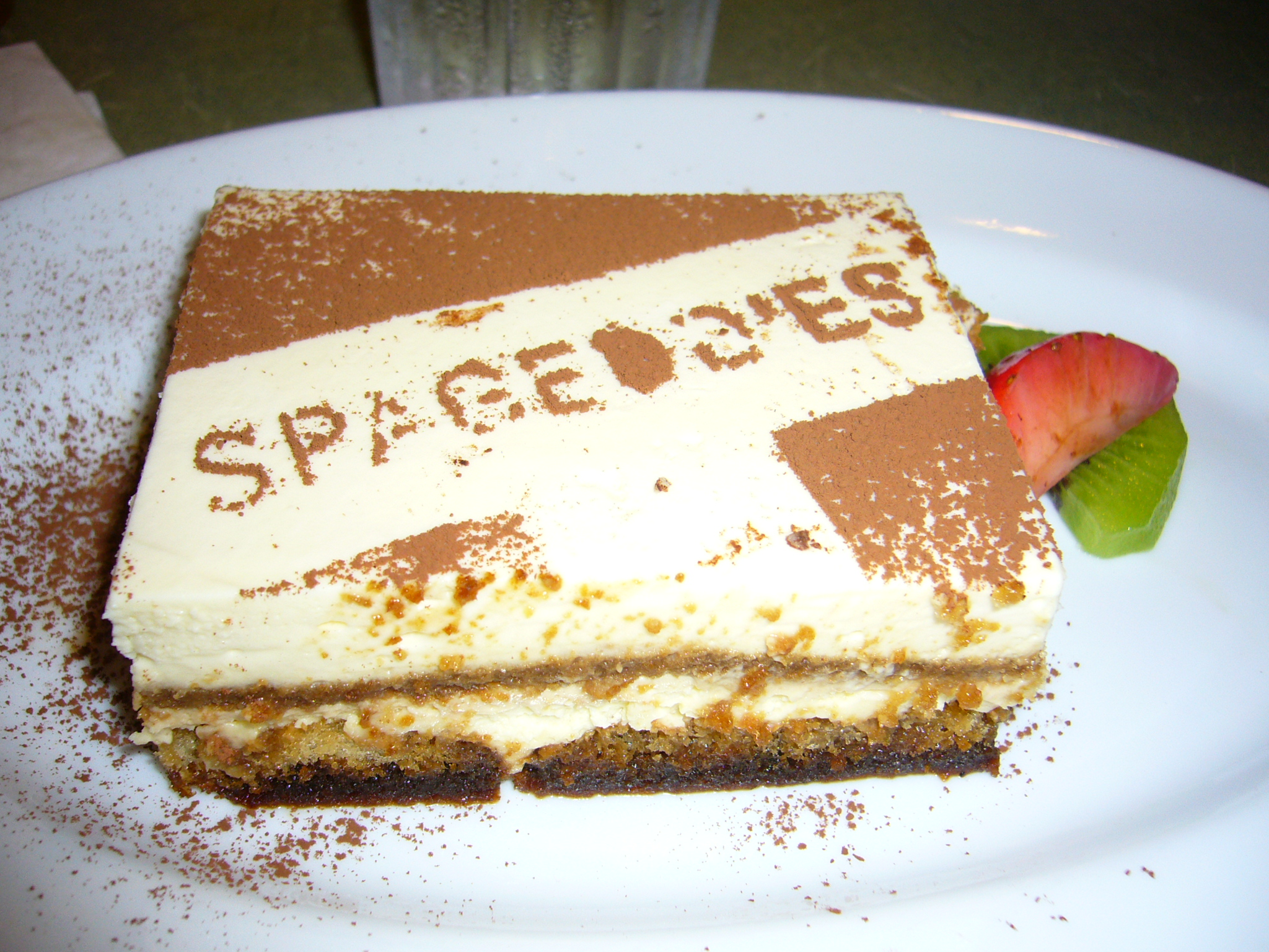 A tiramisu at Spageddies, an Italian-style restaurant in Singapore.